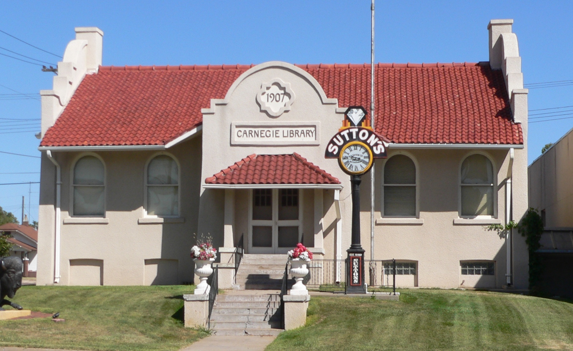 McCook Public-Carnegie Library, located at southeast corner of 5th Street and Norris Avenue; seen from the west. The Mission Revival building, constructed in 1907, is listed in the National Register of Historic Places. It is now part of the High Plains Museum.